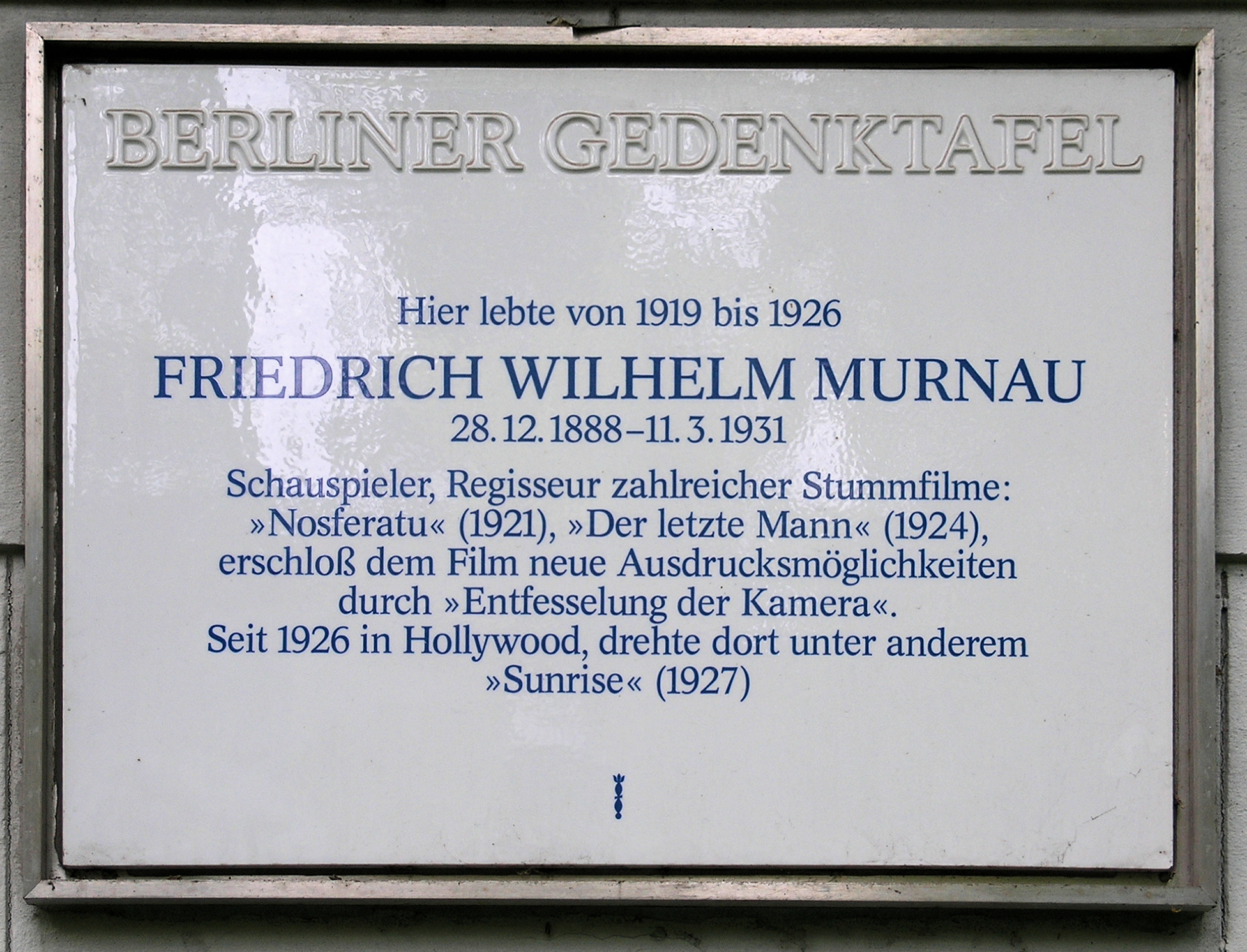 Berlin memorial plaque, Friedrich Wilhelm Murnau, Douglasstraße 22, Berlin-Grunewald, Germany Koordinate:52°29′6″N 13°15′38″E / 52.485°N 13.26056°E